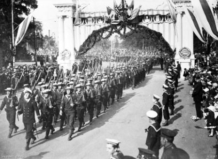 Sydney. Members of HMAS Australia's crew march north along Macquarie Street during peace celebrations.